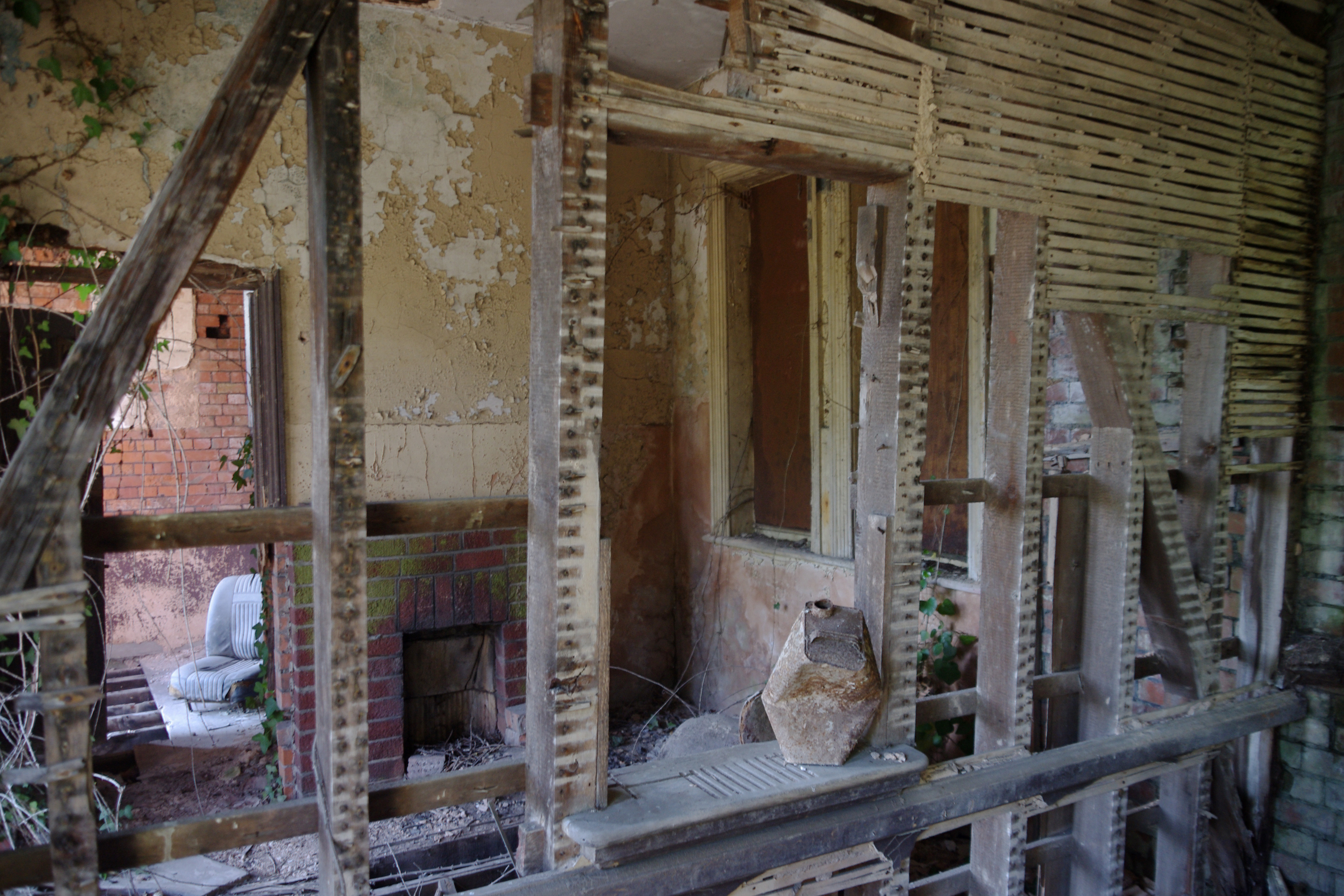 Interior of Flax Bourton railway station on the Bristol to Exeter Line. The station closed in 1963 and has been derelict ever since. This appears to be a ticket window, though I'm not sure which side is the office and which the waiting room.